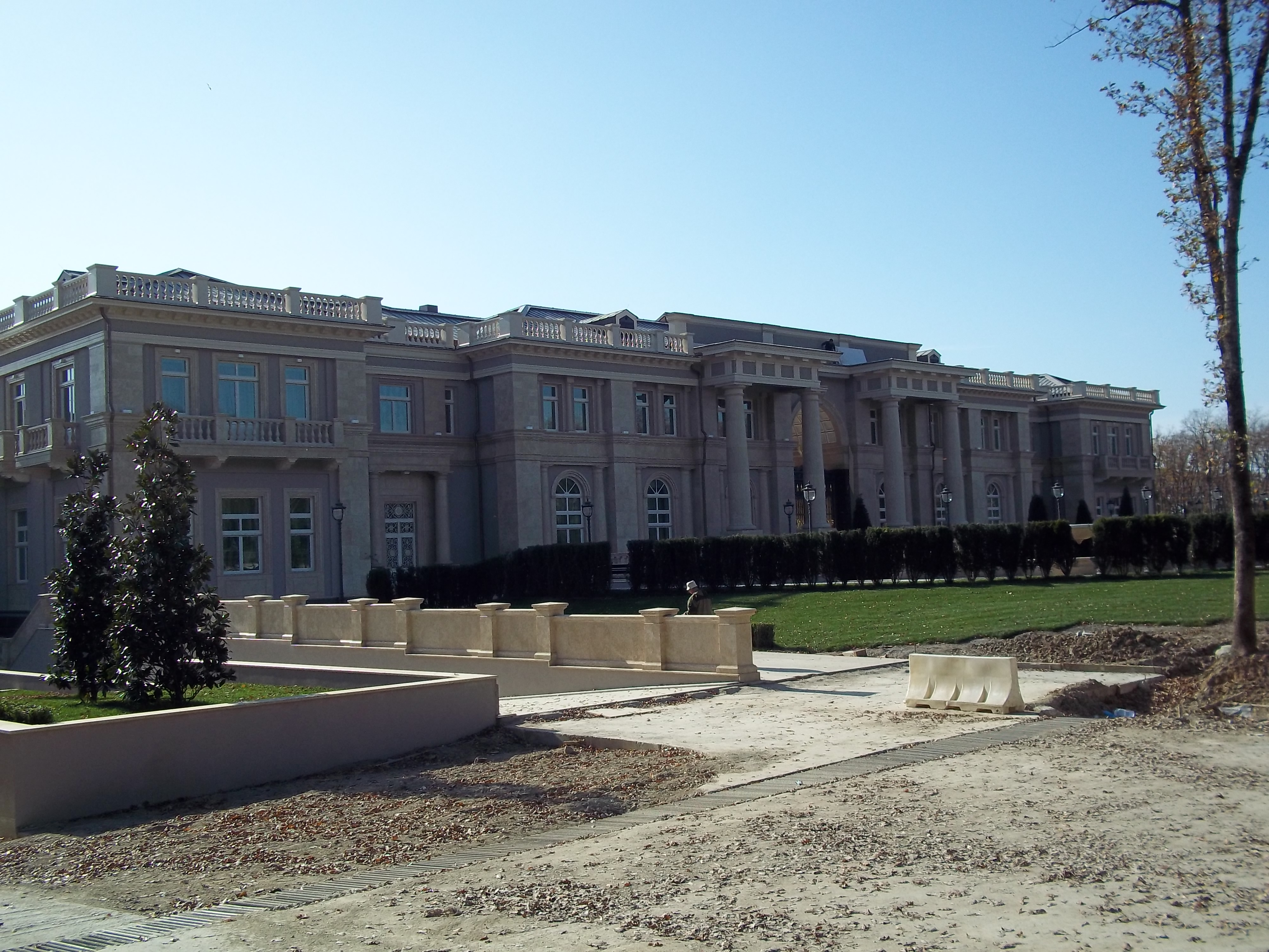 Exterior of "Putin's Palace", near the village of Praskoveevka in Krasnodar Krai, Russia.